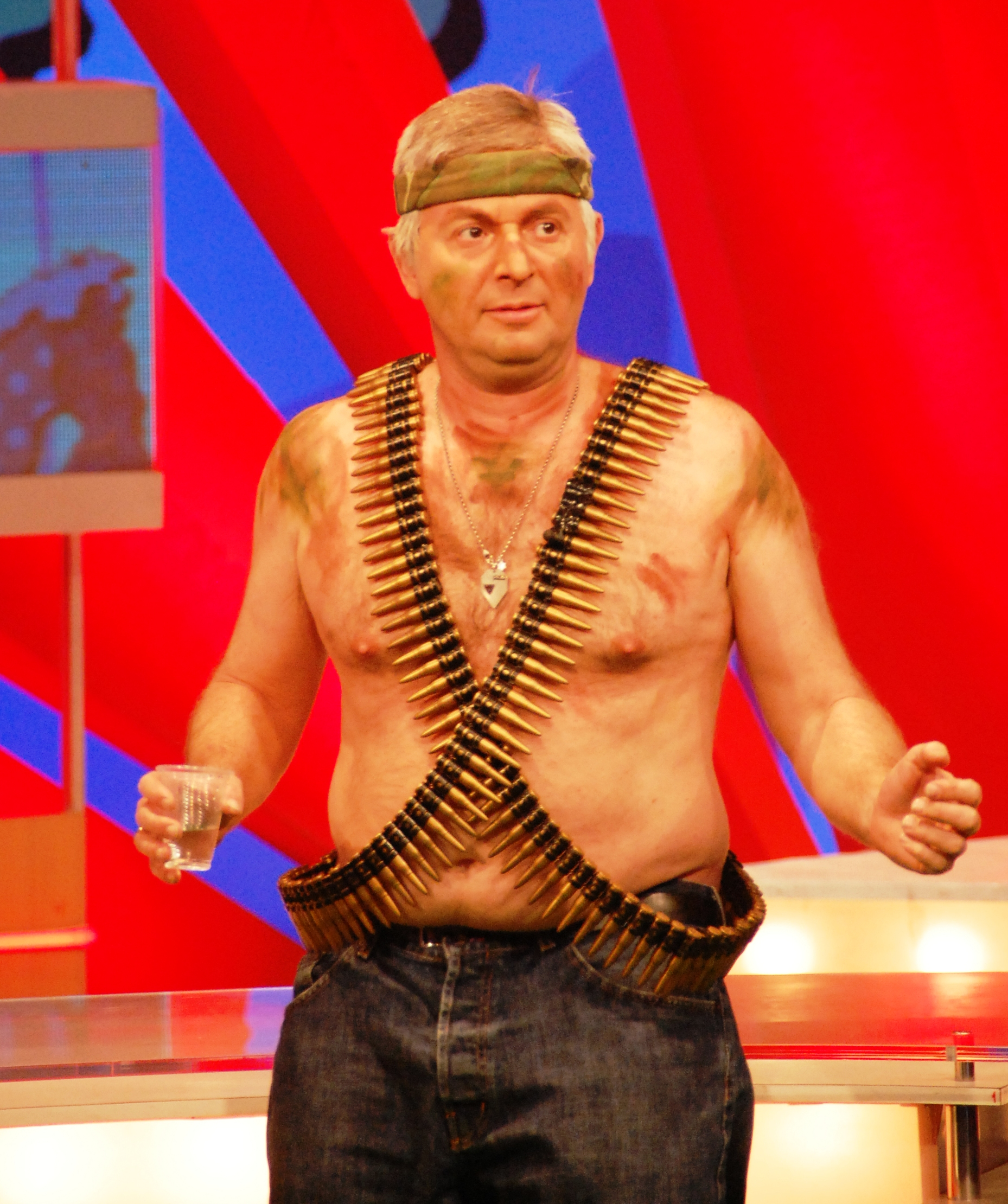 Tal Friedman (Hebrew: טל פרידמן, born 20 December 1963) is an Israeli comedian, actor and musician.